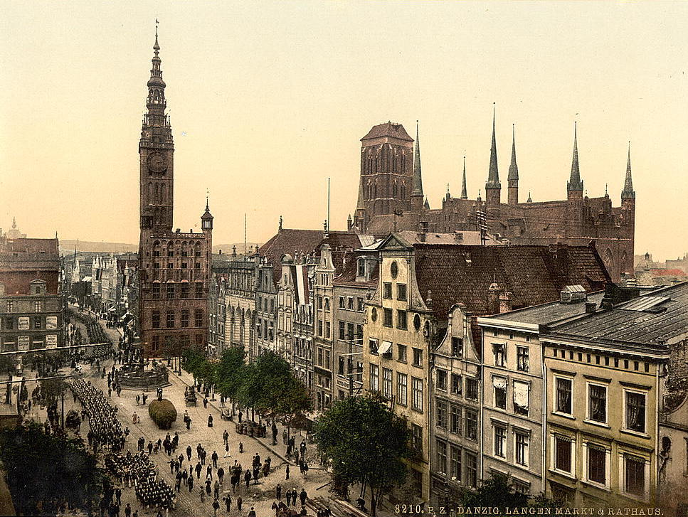 Gdańsk Long Market Square ca 1890-1900.